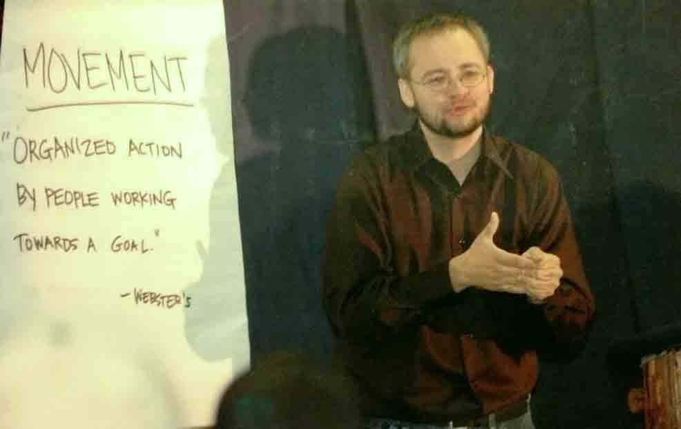 Drago giving the keynote speech at the Northwest Rainbow Alliance of the Deaf [NWRAD] Lifestyle Leadership Camp, 2006. He is in a black long sleeve dress shirt signing "leadership". A white flip chart stands next to him with the words, "MOVEMENT: Organized action by people working towards a goal. - Webster's."